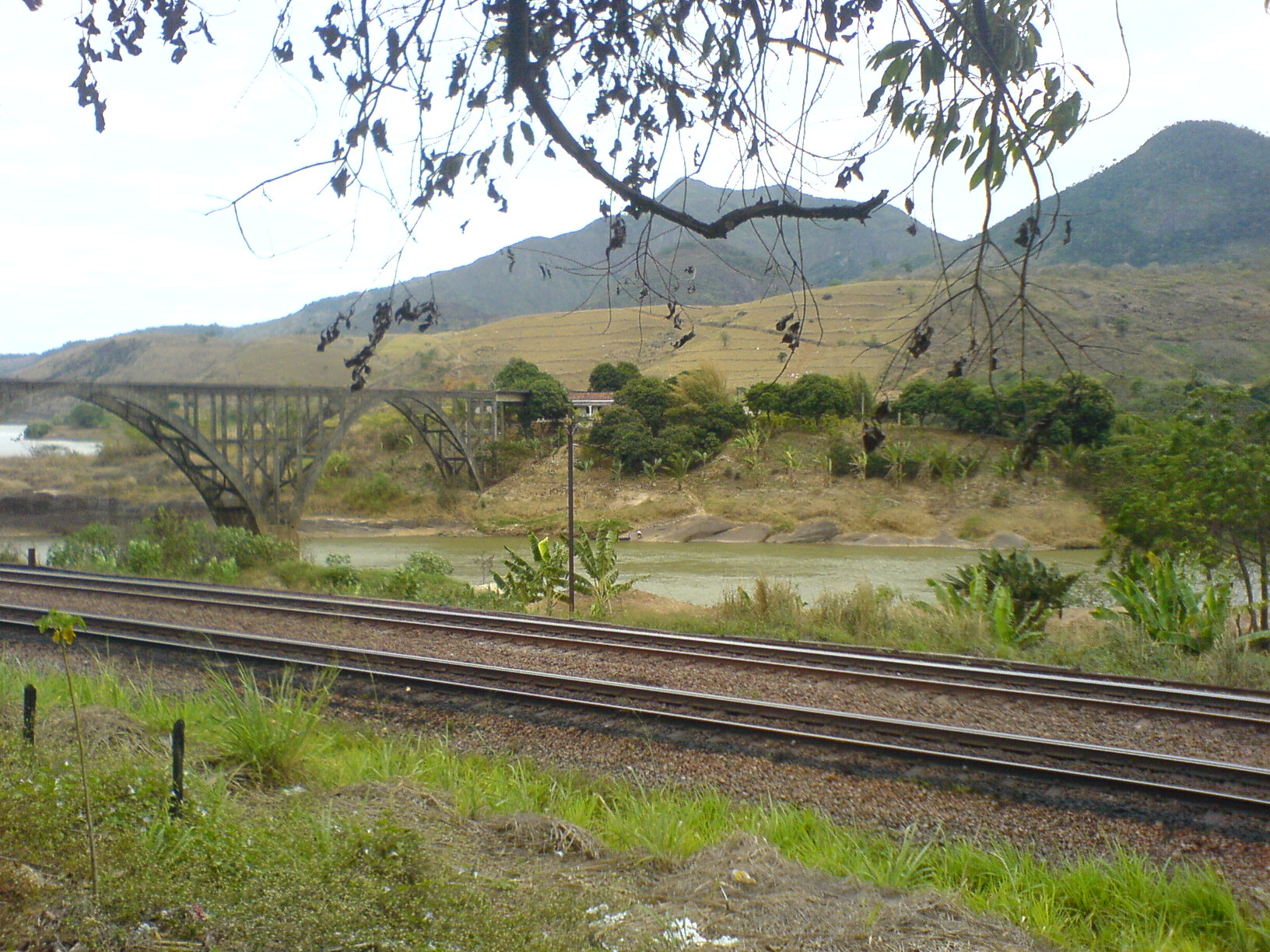 The unconclused bridge of Itapina, Espírito Santo, Brazil